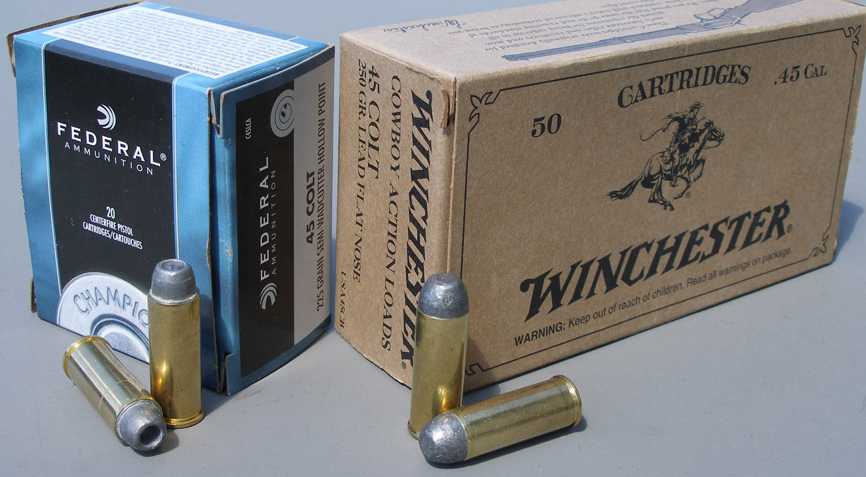 Own work. Federal 45 colt semi-wadcutter hollow point and Winchester Cowboy Action Loads.